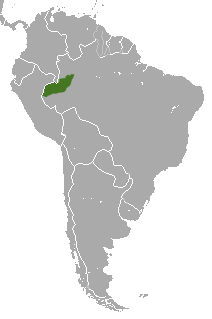 Red-headed Titi (Callicebus regulus) range